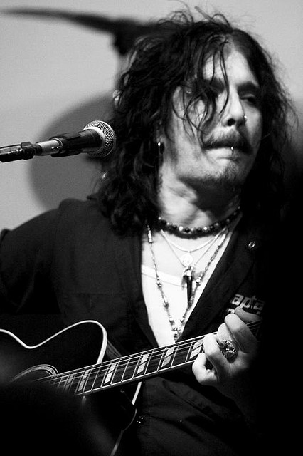 John Corabi performing in 2010.